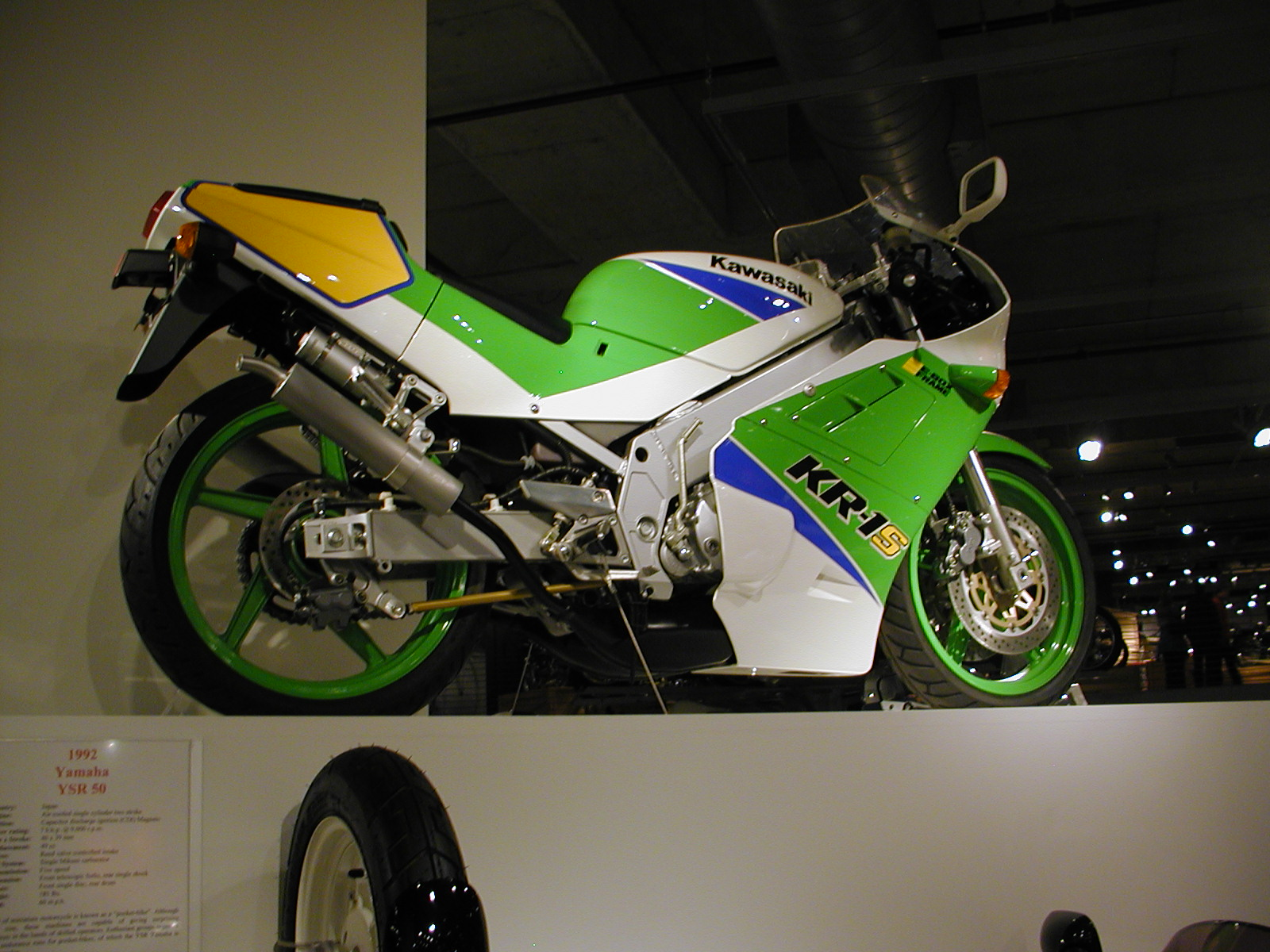 Barber Motorcycle Museum - Oct 22 2006 (106) Kawasaki KR-1S 250